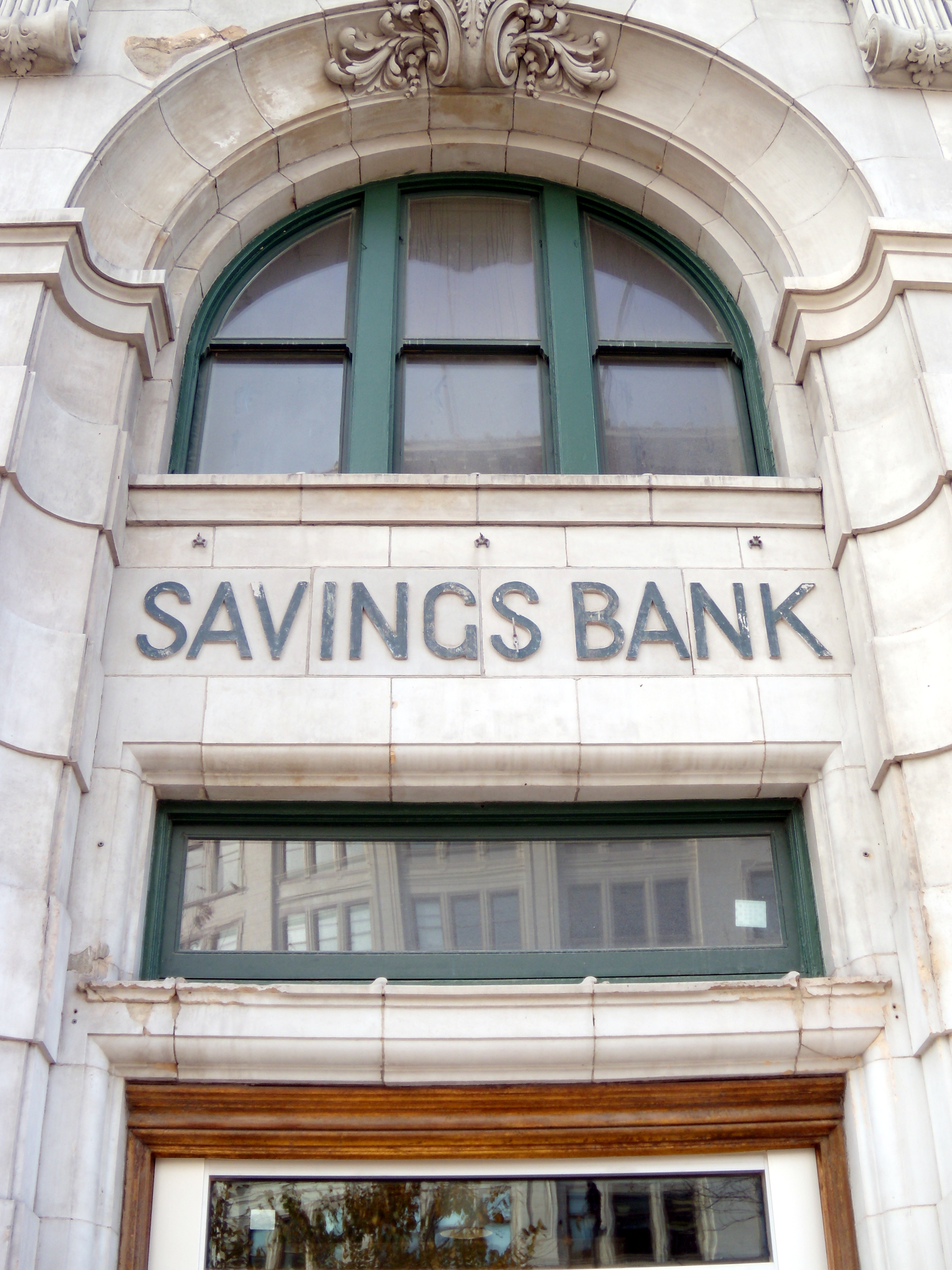 Detail of Savings Bank Signage on Union Bank Building in Winnipeg